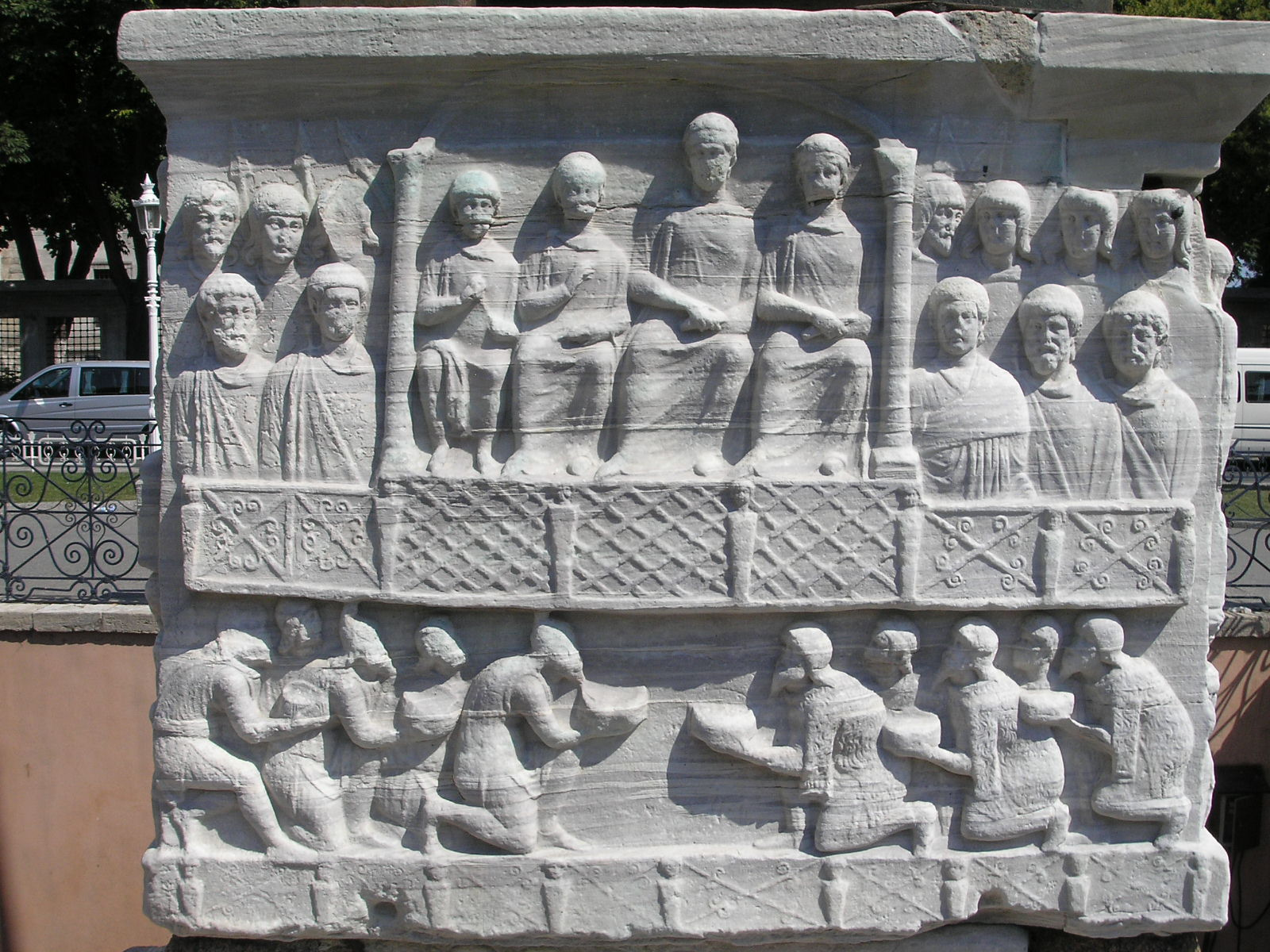 Details of the base of the Obelisk of Thutmose III, detailing the Eastern Roman Emperor surrounded by the court.